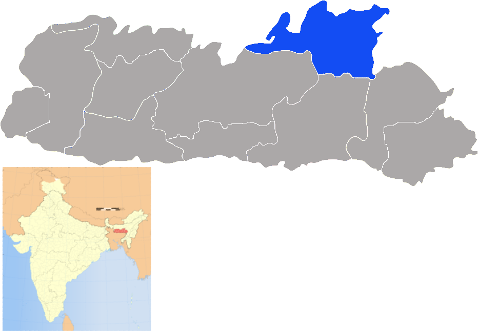 Ri-Bhoi district of Meghalaya